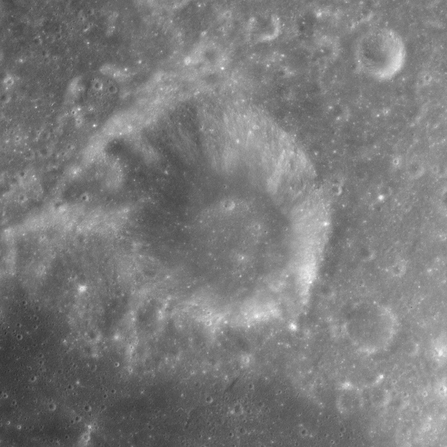 Nunn, on the far side of the moon.